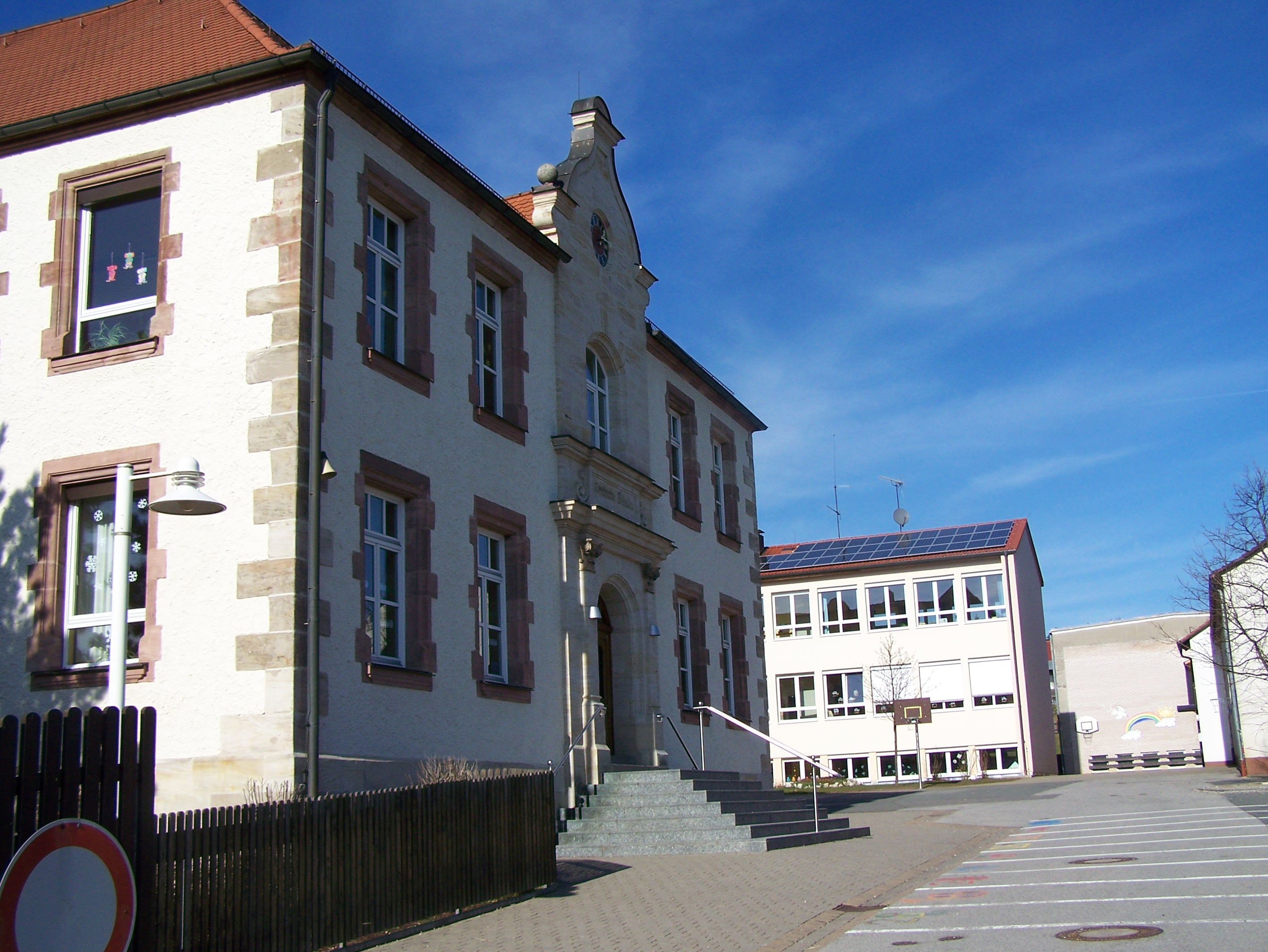 Elementary school Schnaittach, Germany.